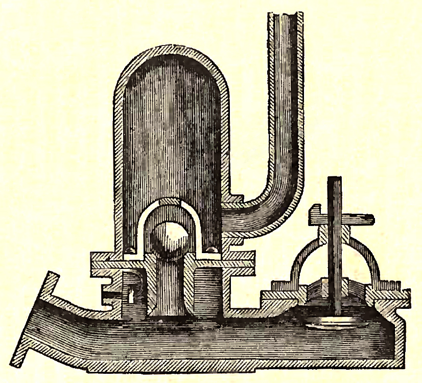 Hydraulic ram as shown by Messrs. Easton & Amos of Great Guilford Street, Southwark, at the Great Exhibition at Crystal Palace 1851.